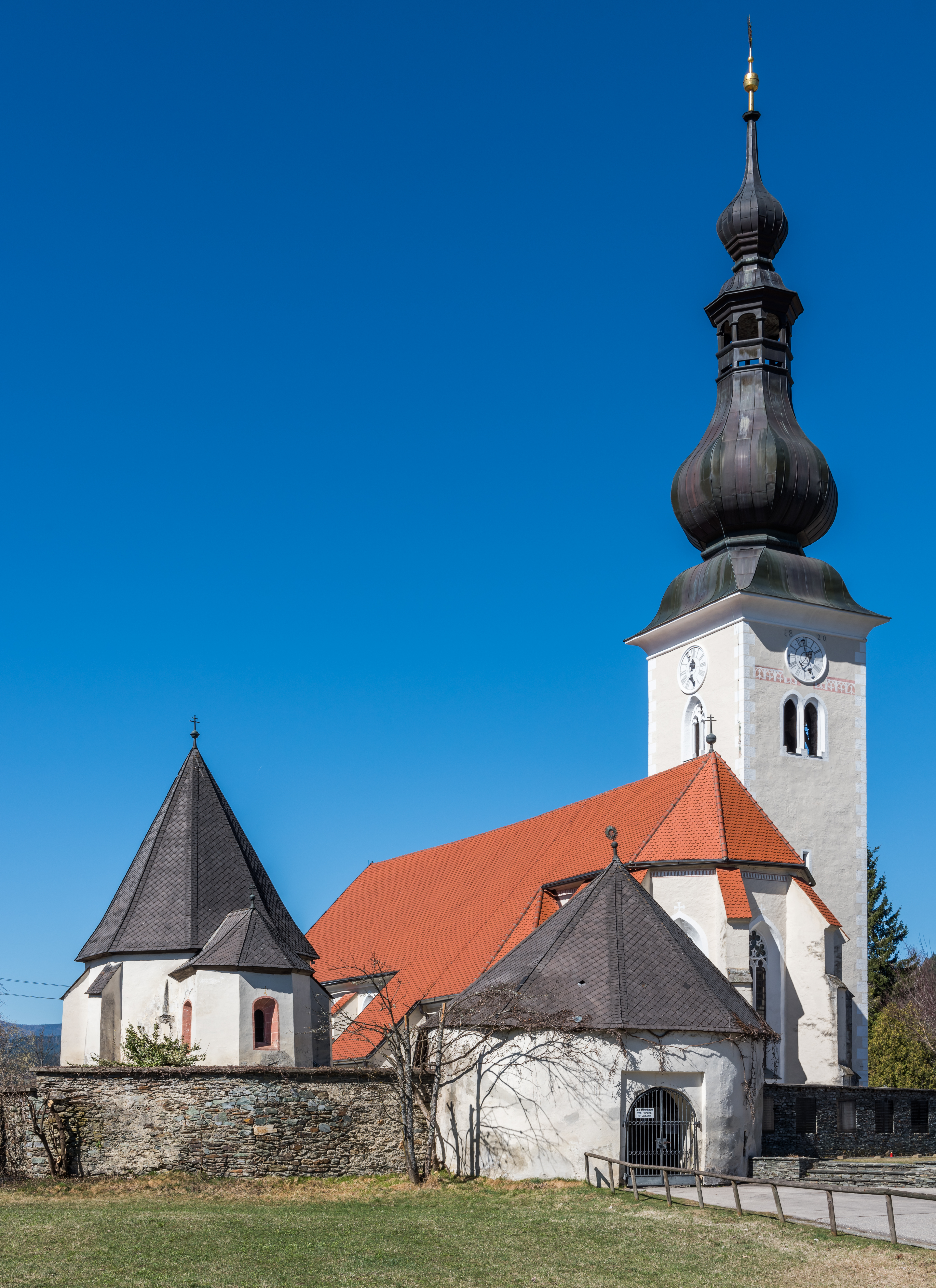 Charnel house and parish church Saint John the Evangelist amidst the fortified cemetery of Weitensfeld, market town Weitensfeld, district Sankt Veit an der Glan, Carinthia, Austria, EU